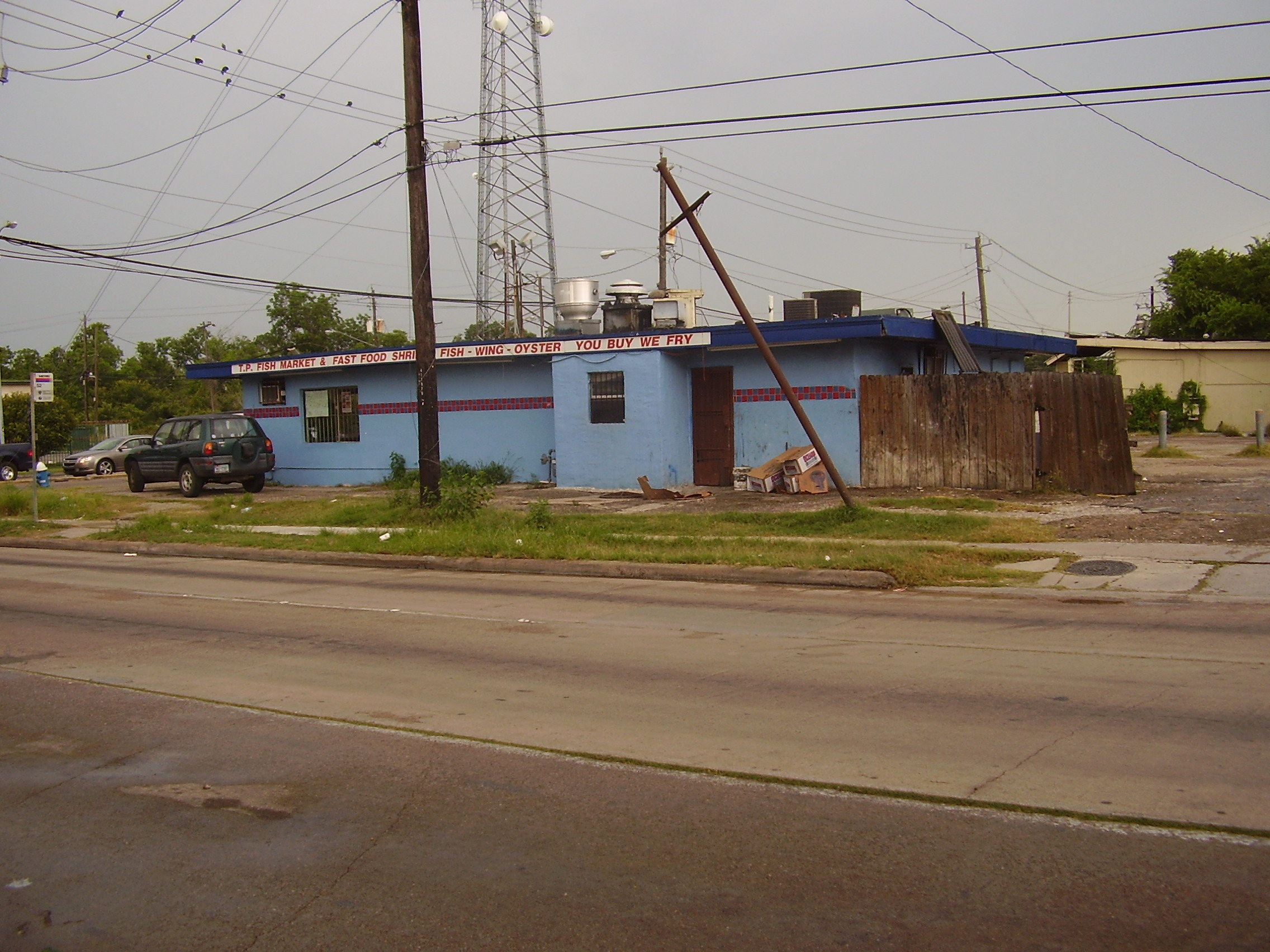 T.P. Fish Market and Fast Food - A "you buy we fry" establishment in Sunnyside